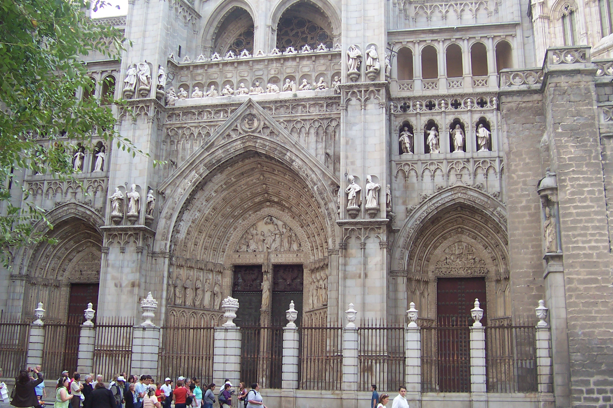 The Cathedral of Toledo